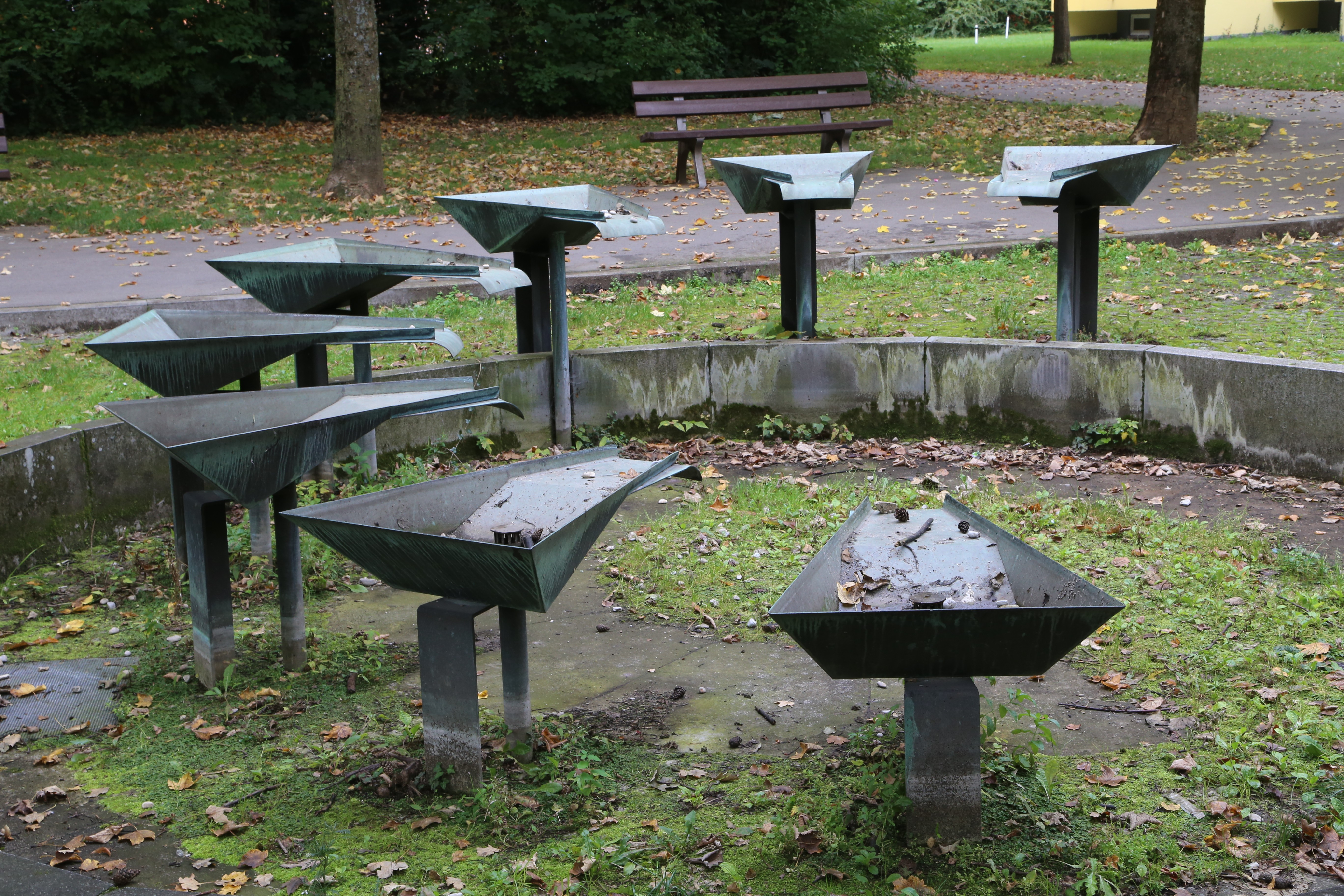 Object location48° 06′ 35.09″ N, 11° 39′ 15.65″ E